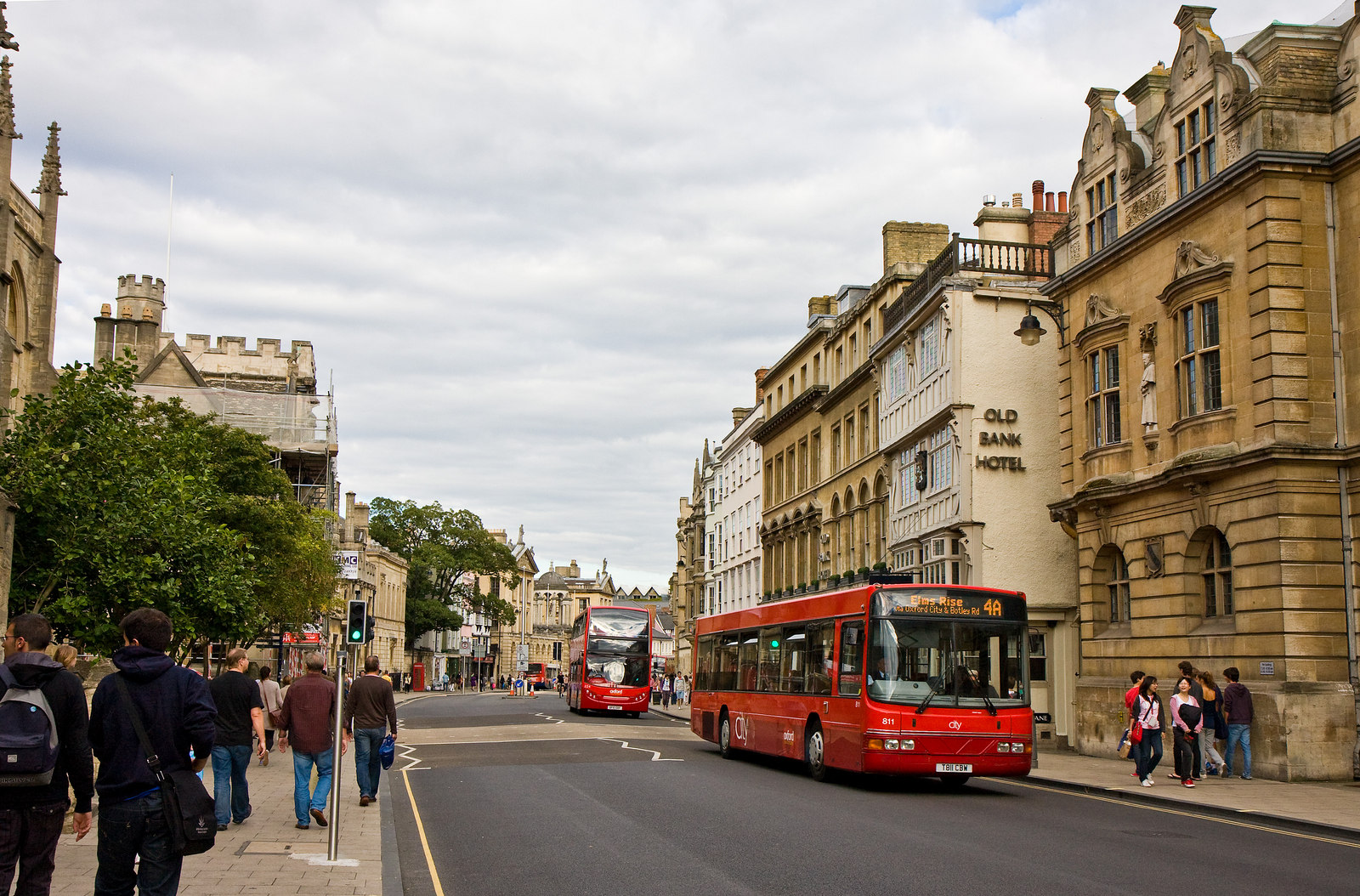 View east along part of High Street, Oxford, from outside the University Church of St Mary The Virgin. The two buses belong to Oxford Bus Company. The single decker in front of the Old Bank Hôtel is a Volvo B10BLE with a Wright Renown body. The double decker in the background is an Alexander Dennis Enviro400.